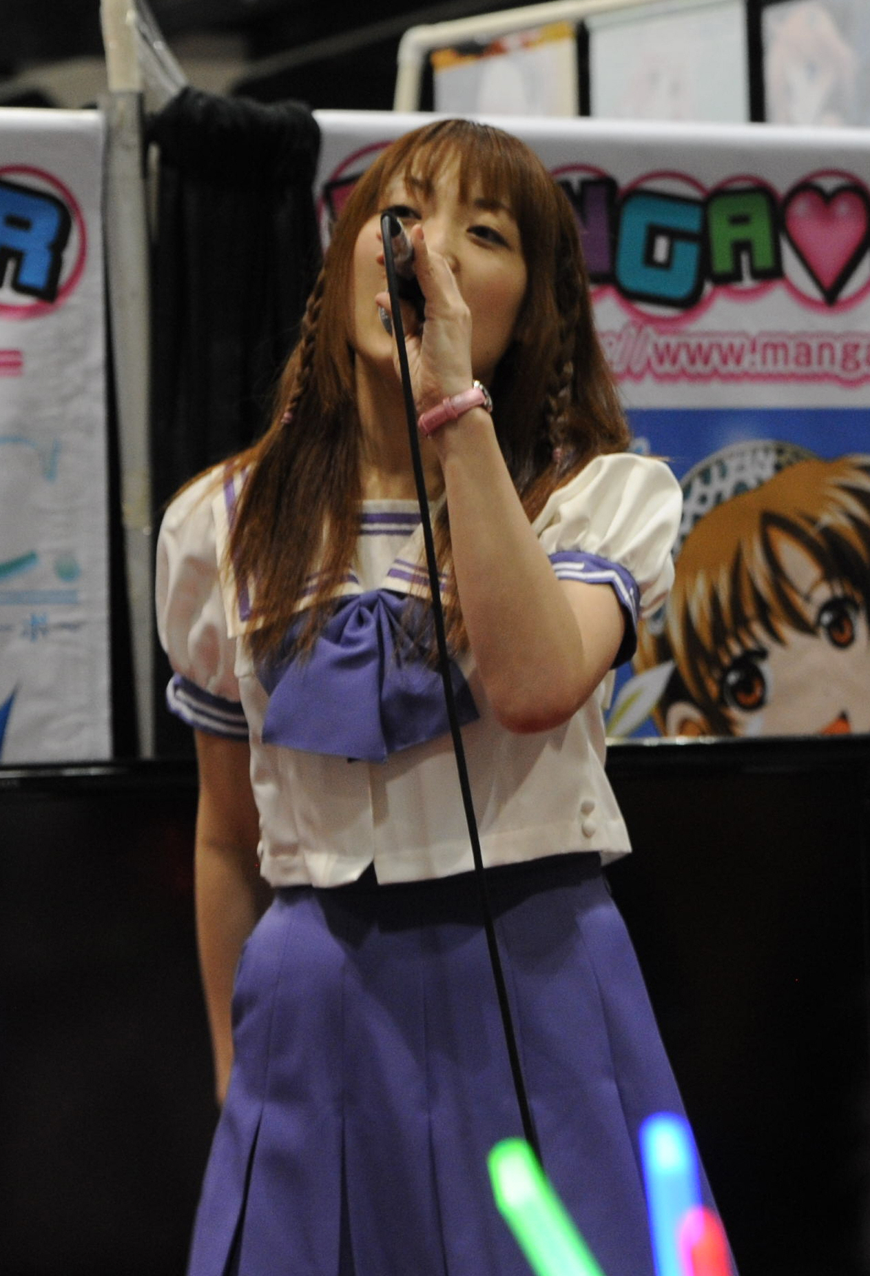 Minami Kuribayashi with cosplay of Kimi ga Nozomu Eien at Anime Expo 2010.